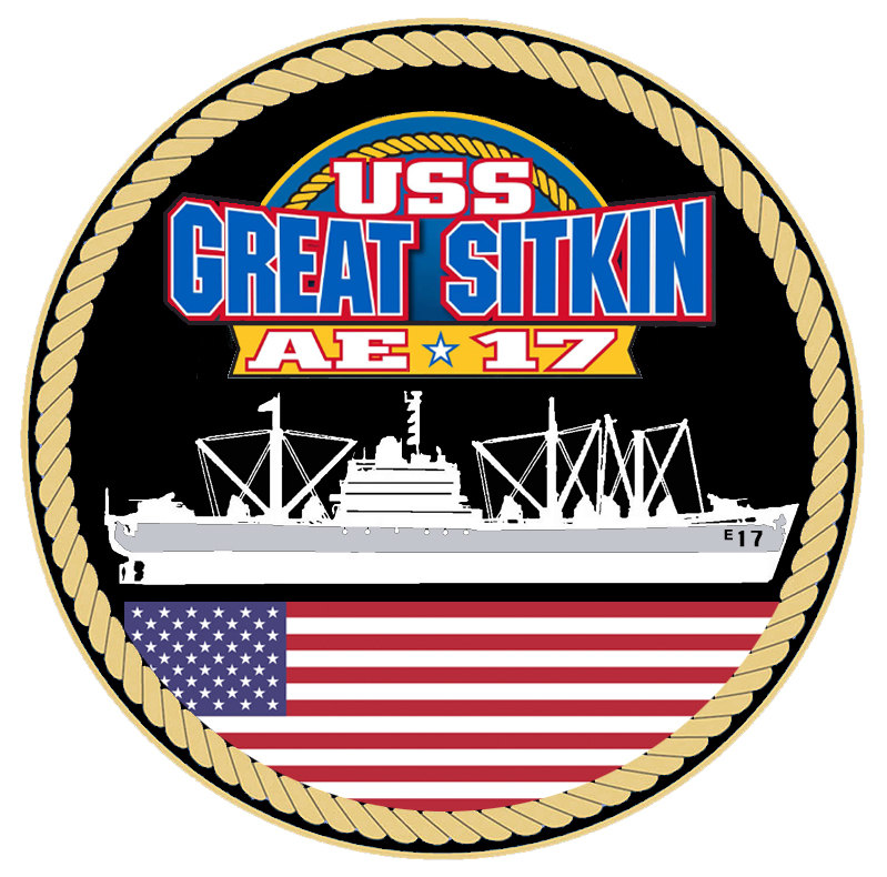 USS Great Sitkin (AE-17) challenge coin graphic